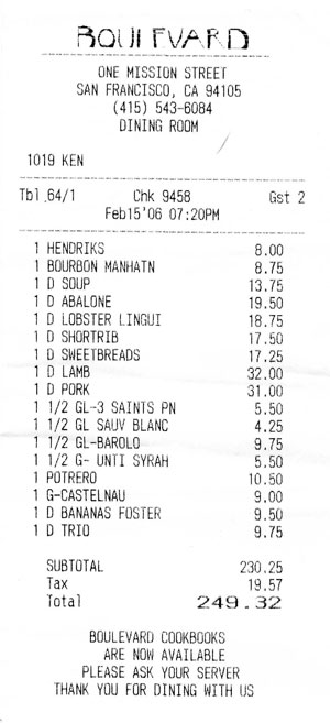 What I didn't make clear, and worth mentioning considering the comments, is that Adaptive Path gave every employee a gift certificate to a San Francisco restaurant as a holiday gift.